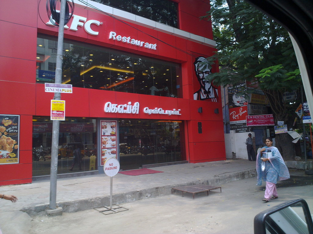 db road KFC